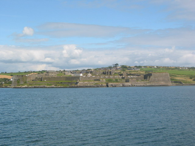 Charles Fort, Kinsale (it, de), county Cork, Ireland